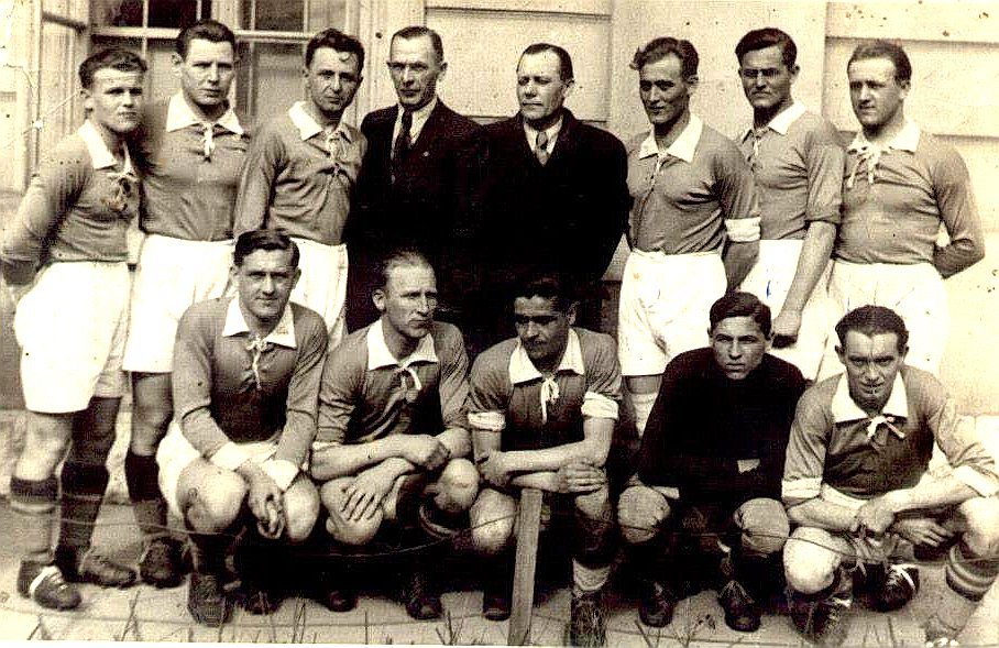 AC Dorog in 1942 spring. Gyula Grosics one of the post popular and world famous goalkeeper is in the first line the second from right. This year was his first real season between the adults. Further knows players on the picture Adolf Dunai (second line first from left) beside him Jozsef Klausz, next is Bela Szajlay, Istvan Mezner the trainer and manager, Sandor Nagy second trainer and administrative staff, Lajos Turai, unknow person, Janos Csermak. Dezso Pfluger is in the center of the first line (beside to Grosics).